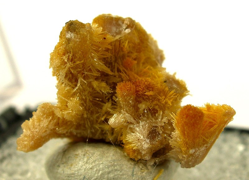 Boltwoodite Locality: Goanikontes Claim, Arandis, Swakopmund District, Erongo Region, Namibia (Locality at ) Size: 1.8 x 1.7 x 1.4 cm. A lovely thumbnail consisting of very fine acicular crystals of umber-yellow boltwoodite. The needles exhibit both a radial growth and a vertical cluster habit not unlike what you see in some palms, and are superb in both color and habit. Tim Blackwood Collection.